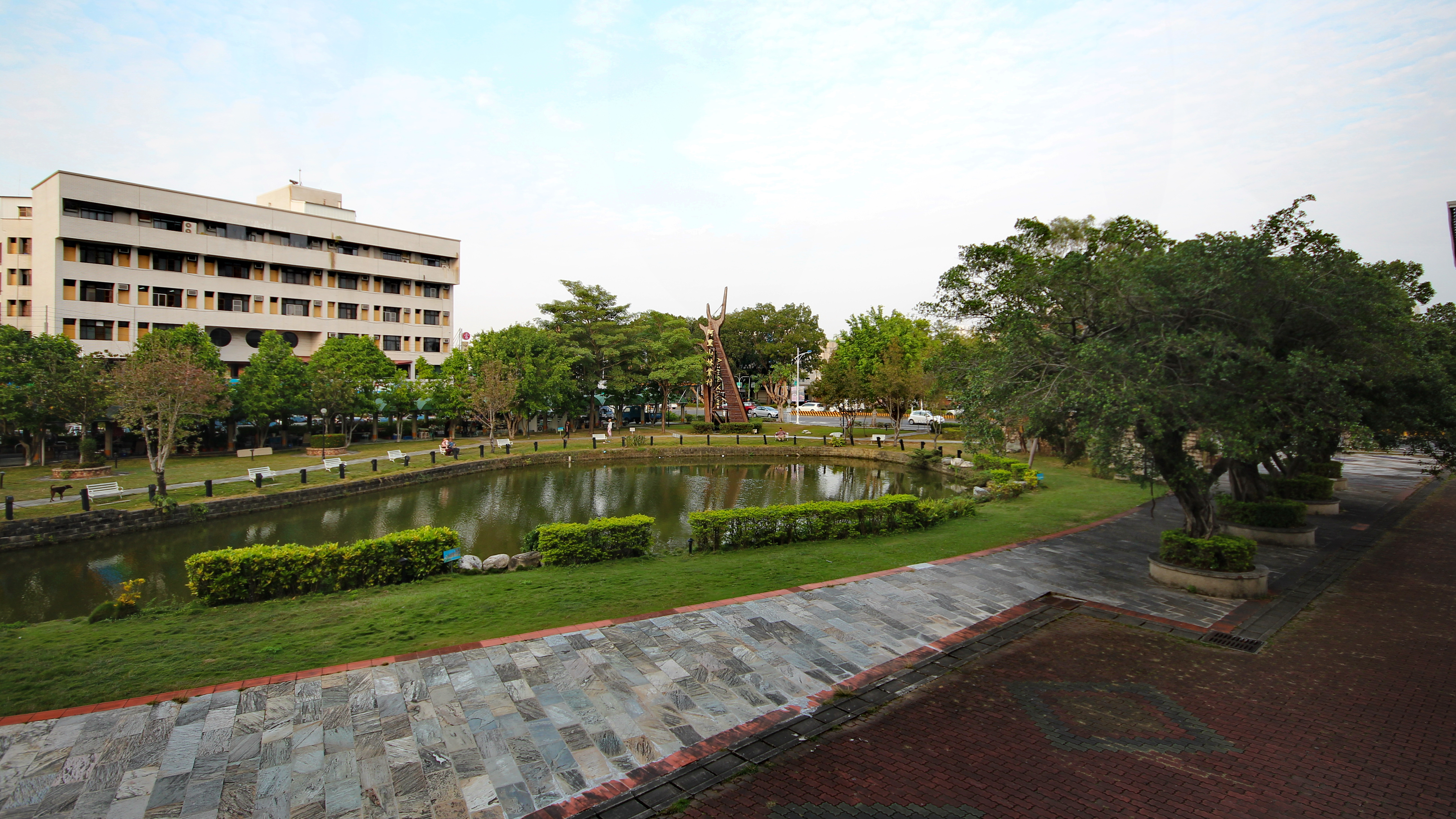 Fir Pond located north of the Cultural Center, Chiayi City, Taiwan.